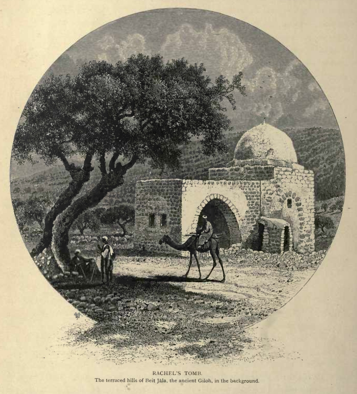 Bethlehem Rachel tomb (Bible), Betlehem, 1880